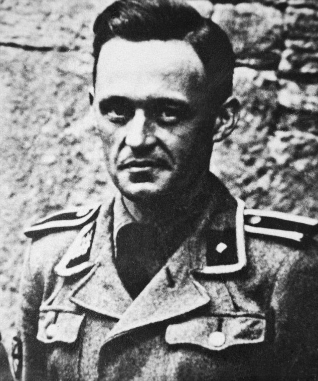 Picture of Roy Courlander, of an unknown source, but likely to be British Crown Copyright, and obviously taken before 1956 and therefore in the public domain